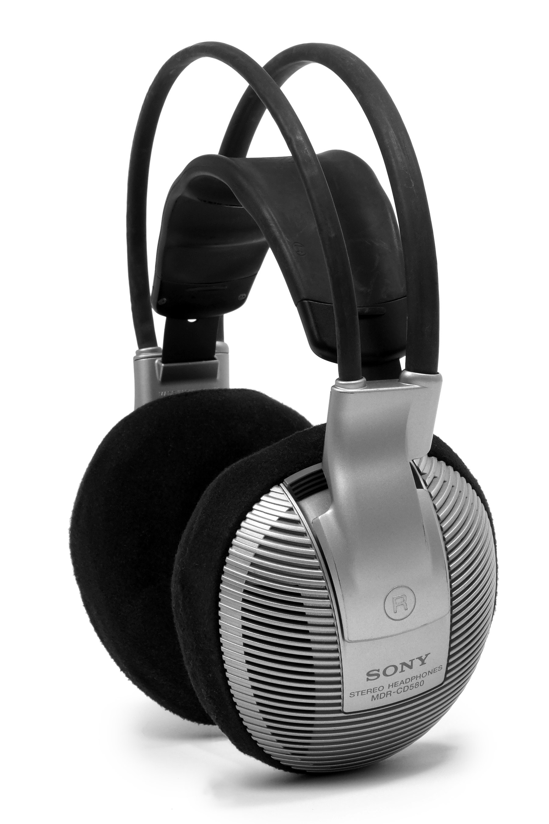 A pair of Sony MDR-CD580 headphones, shown here with the removable headphone cord removed.